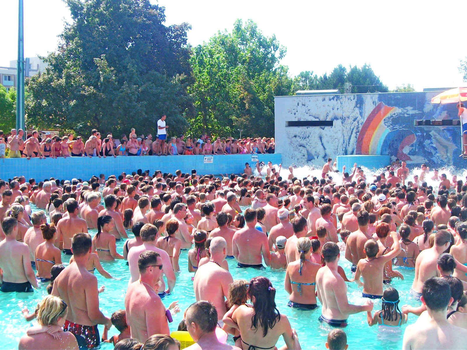 Spa in Hajdúszoboszló, Hungary.